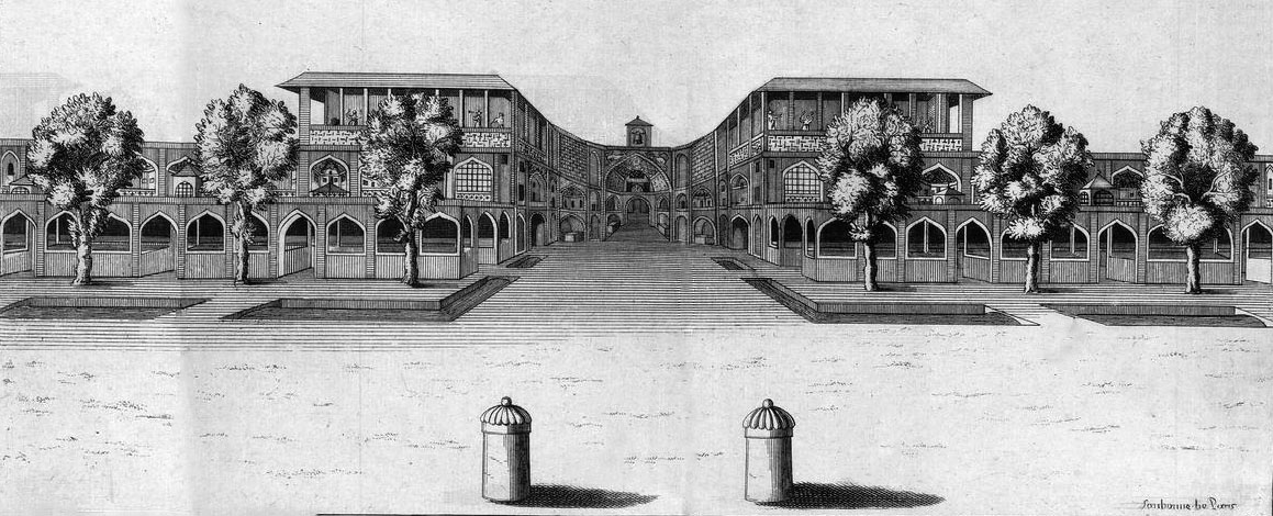 Keisaria gate